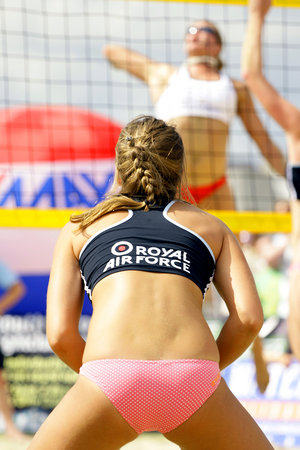 Beach Volleyball Classic 2007 Weymouth Dorset ENGLAND